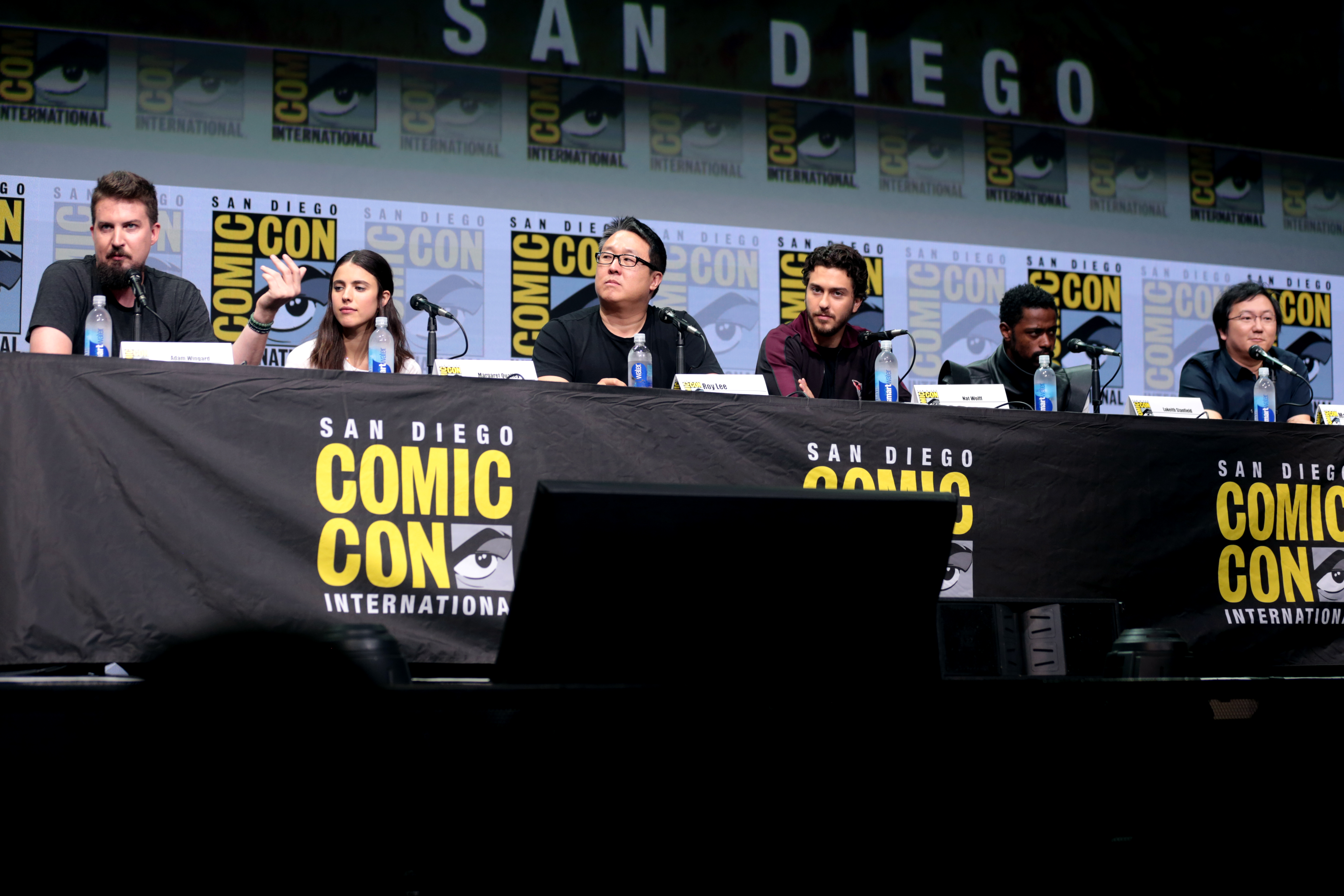 Adam Wingard, Margaret Qualley, Roy Lee, Nat Wolff, Keith Stanfield and Masi Oka speaking at the 2017 San Diego Comic Con International, for "Death Note", at the San Diego Convention Center in San Diego, California.